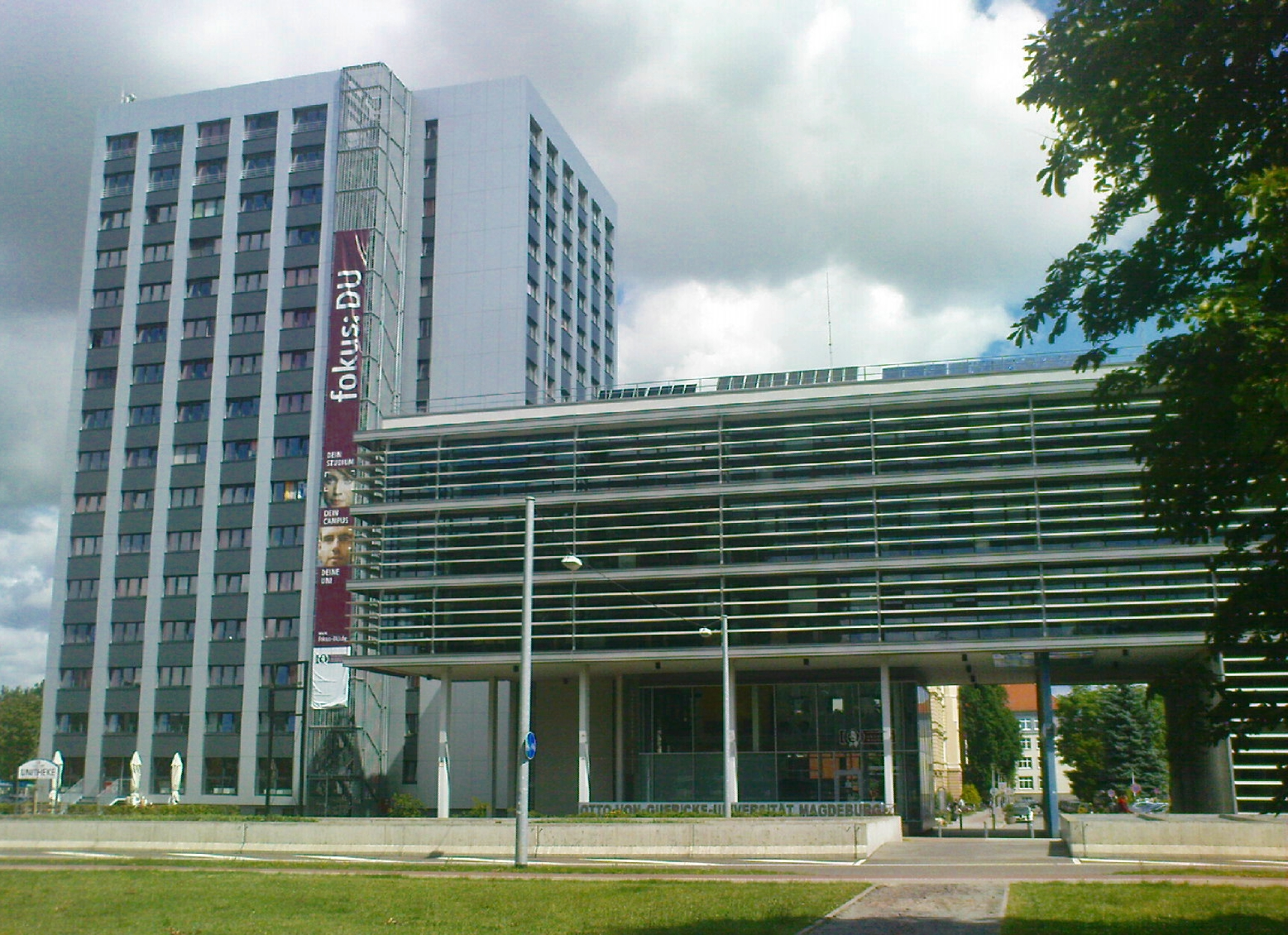 Campustower of the university magdeburg